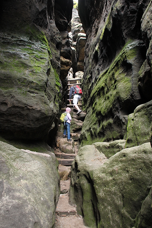 Saxon Switzerland: eastern way on top of the Gohrisch (440 metres).